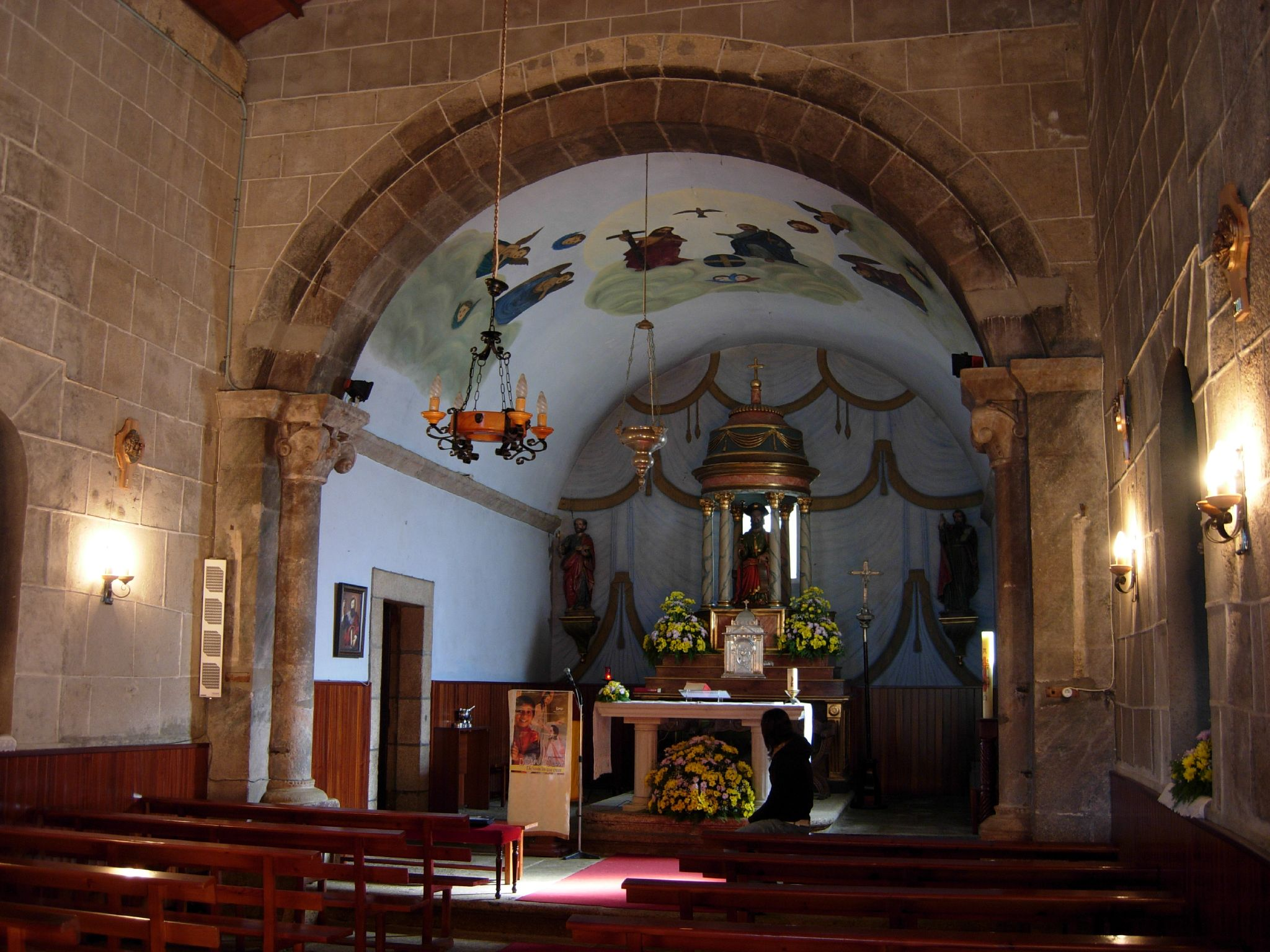 The interior of the church keeps the triumph arch staying over capitols with vegetal details, and the lateral walls of the ship